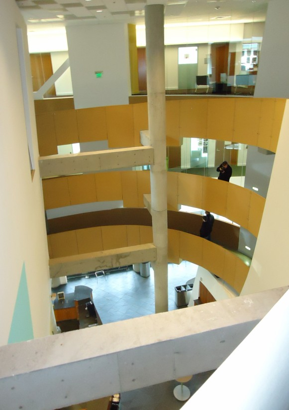 The Gates Center was donated by Bill & Melinda Gates and is the center for Carnegie-Mellon's computing department. Photo: inside the Gates center.